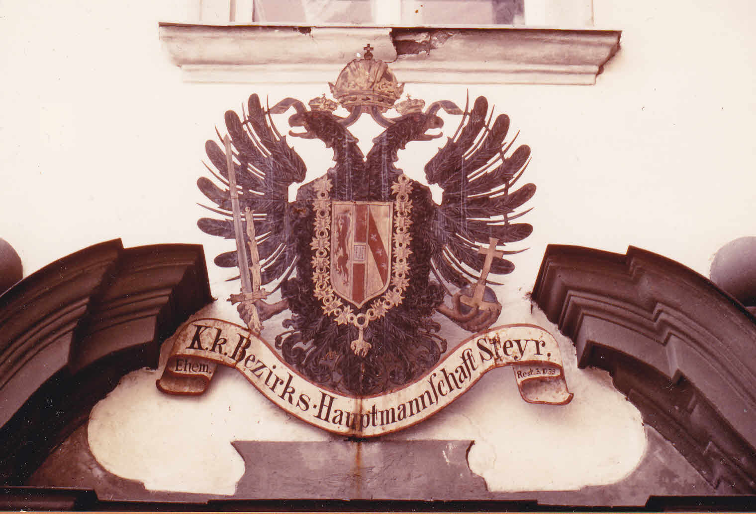 Historical coat of arms and inscription at the building of the Bezirkshauptmannschaft (district office) at the city of Steyr in Oberösterreich (Upper Austria)